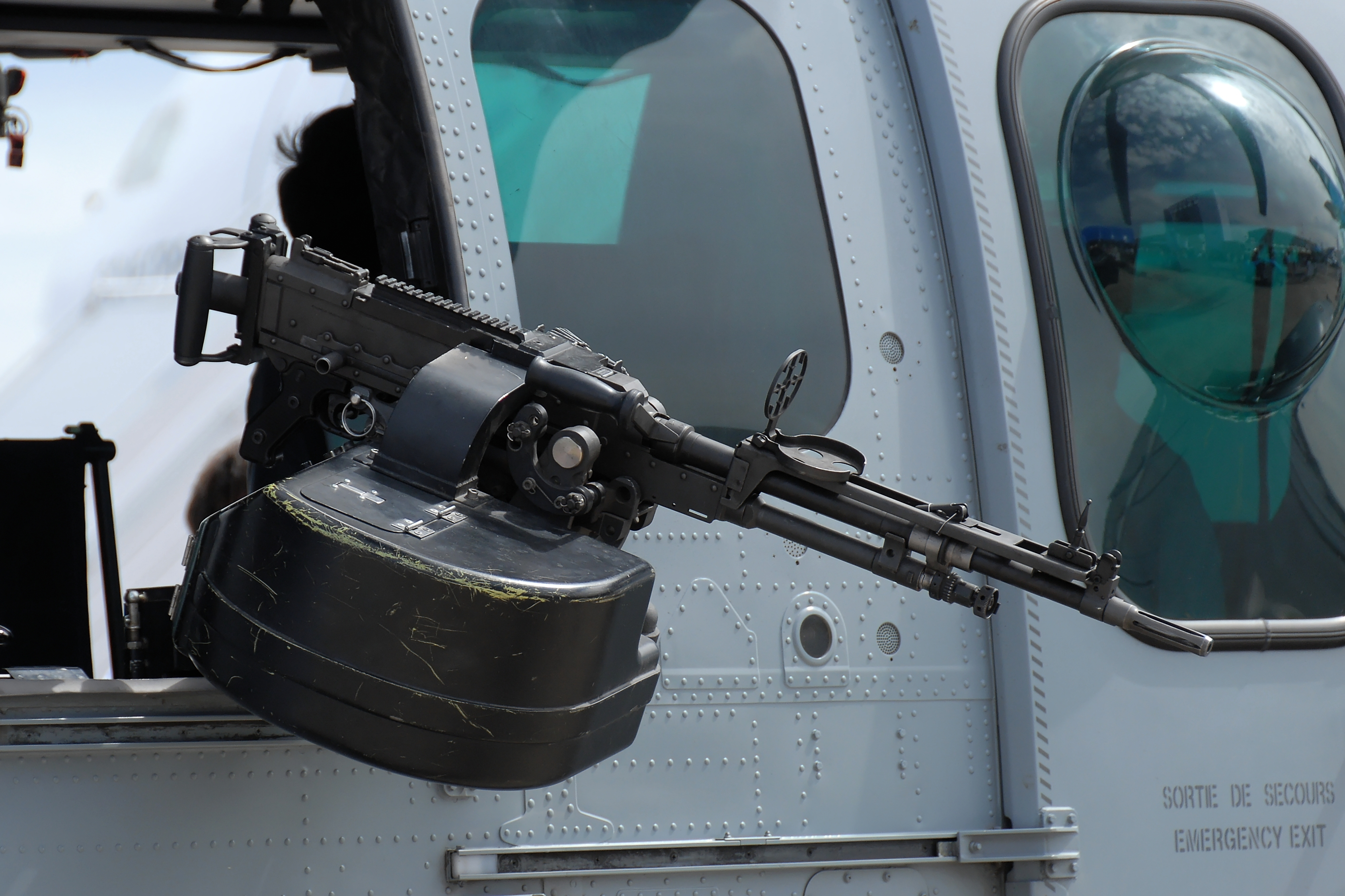 A FN MAG mounted on an Eurocopter Cougar MkII EC-725 at the 2007 International Paris Air Show at the Le Bourget airport.